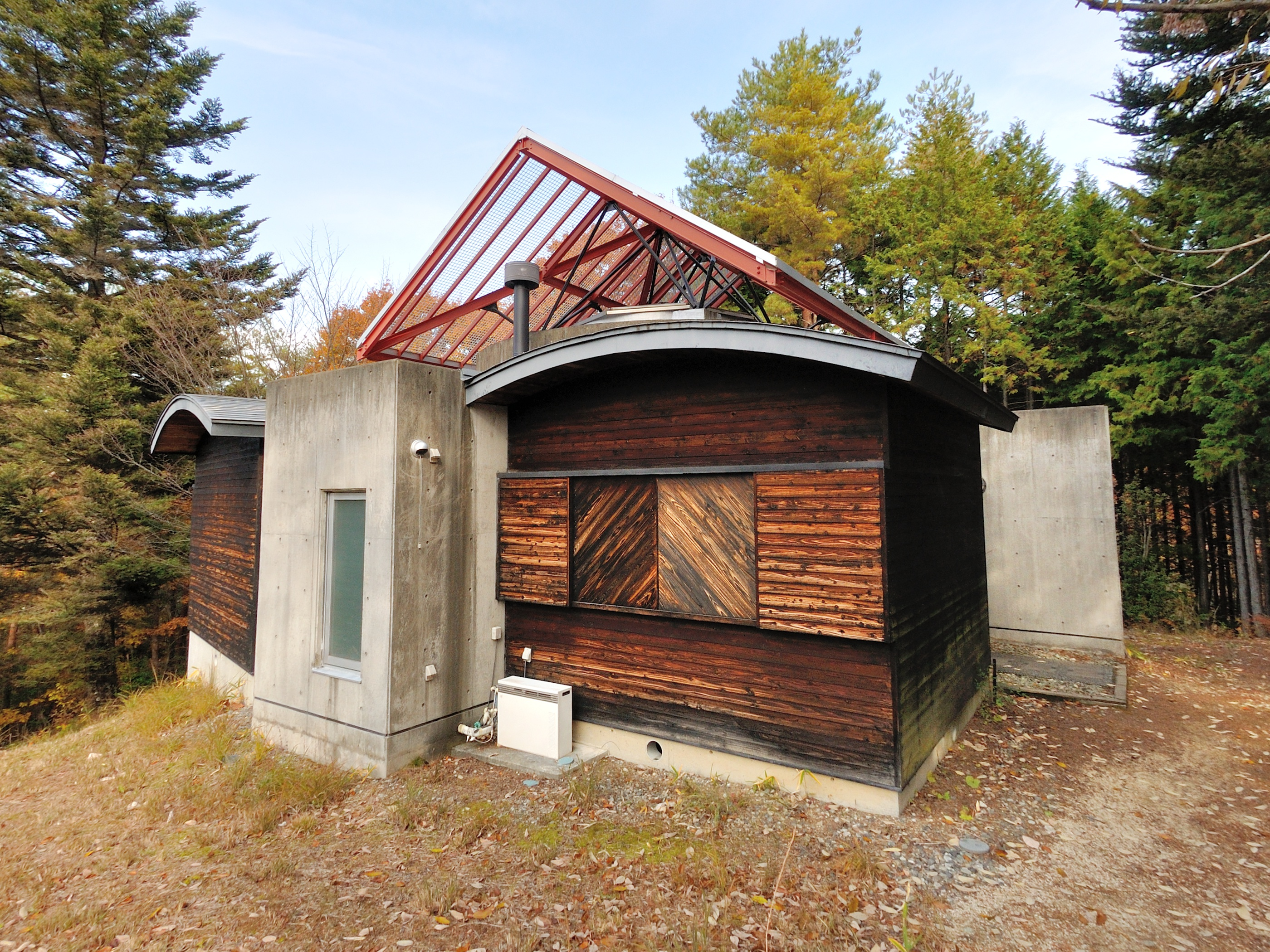 Photograph of INFORMEL NAKAGAWAMURA MUSEUM, atelier building exterior. address 2124 Ookusa, Nakagawa Village, Kamiina District, Nagano Prefecture, Japan photo date November 24, 2012